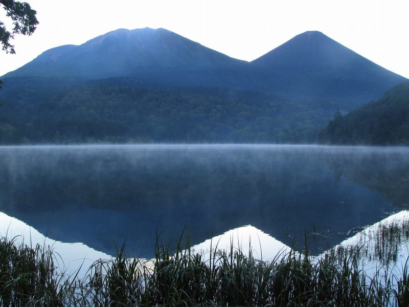 Mount Meakan and Mount Akanfuji seen from the wast. Taken from Lake Onneto, in Hokkaido, Japan.